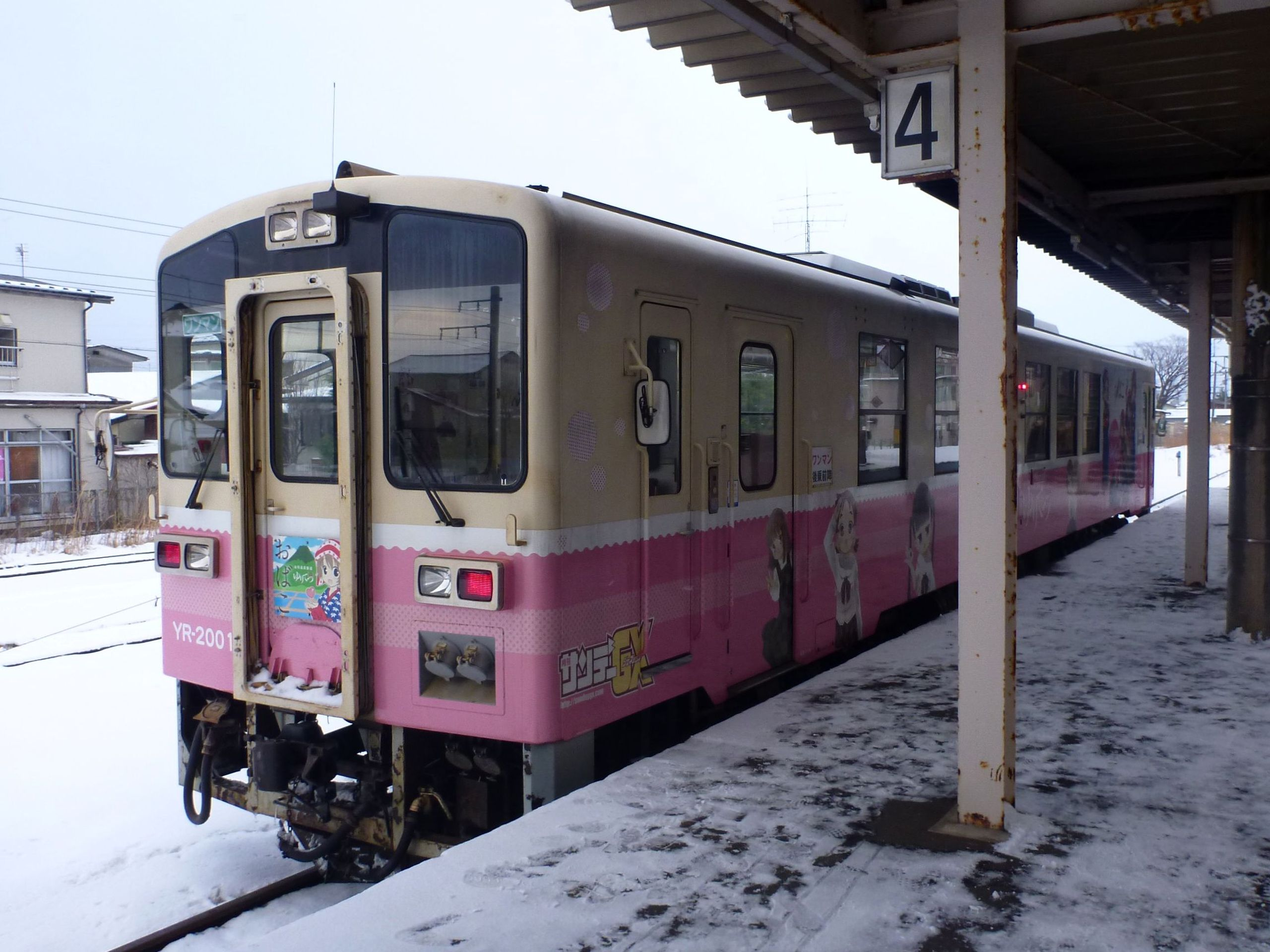 Yuri Kogen Railway Ugo-Honjo Station ゆりてつ 私立百合ヶ咲女子高鉄道部